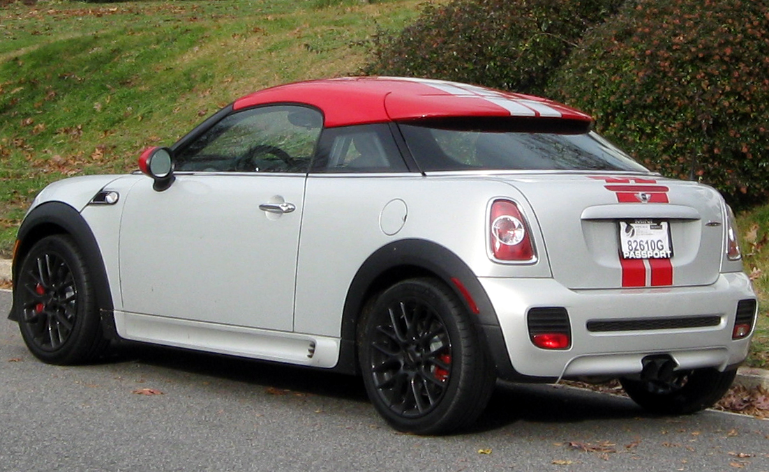 2012 Mini Coupe photographed in Washington, D.C., USA.